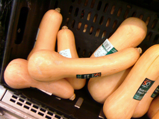 Butternut Squash pumpkins